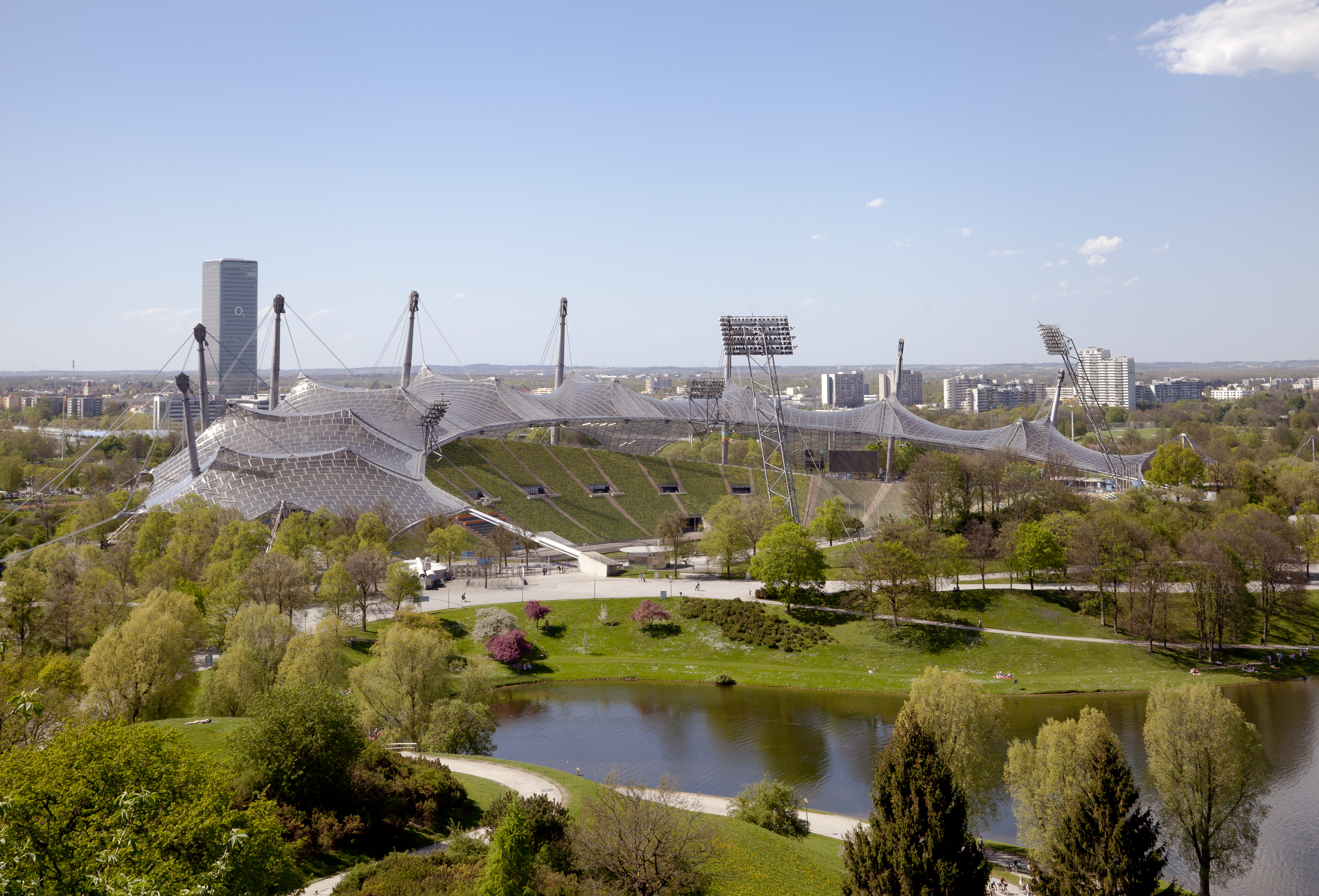 Olympic Stadium, Munich, Germany